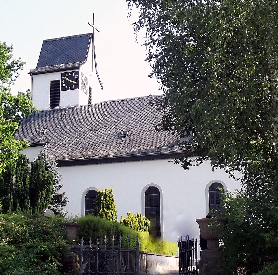 Exterior of the protestant church in Nohfelden, Saarland, Germany